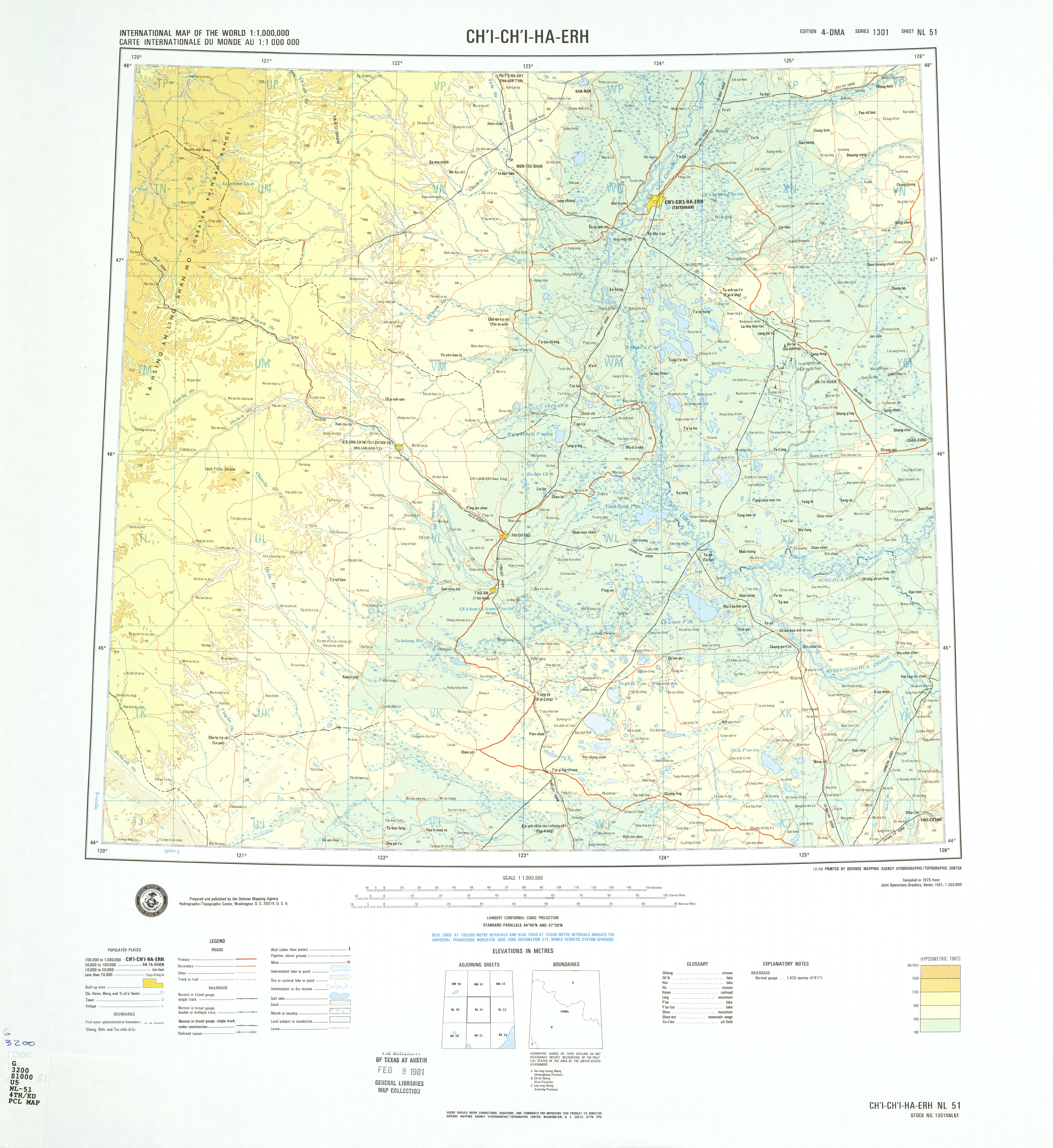 Map of Qiqihar (Ch'i-ch'i-ha-erh, Tsitsihar), Heilongjiang and surrounding area from the International Map of the World 1:1,000,000